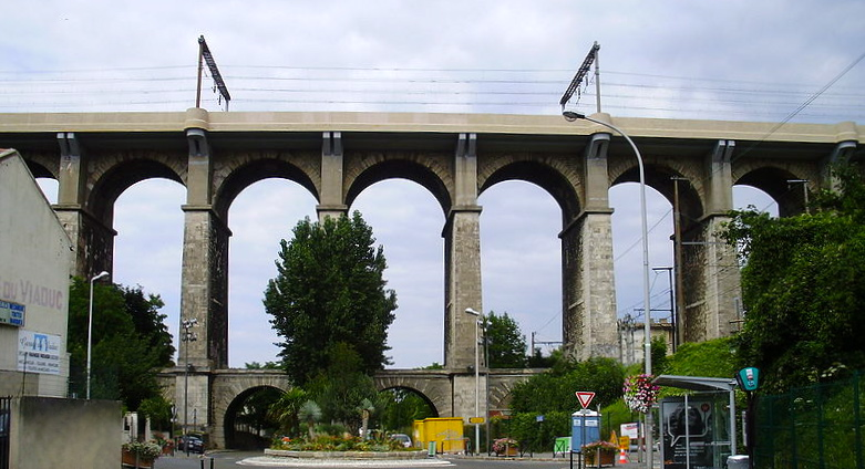 Railway bridge of Meudon, Hauts-de-Seine, France, at the crossroads avenue Jean-Jaurès/rue du docteur Vuillième